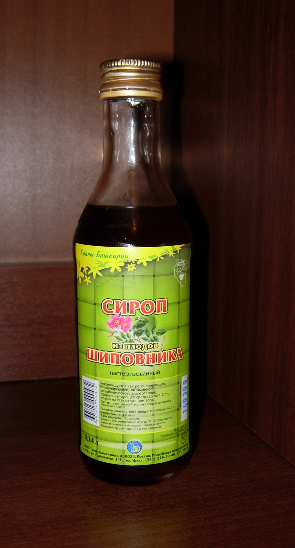 Rose Hip Syrup